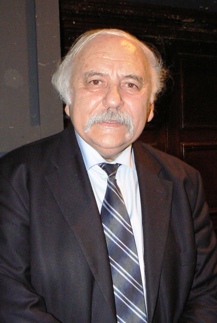 Bulgarian writer Yordan Popov